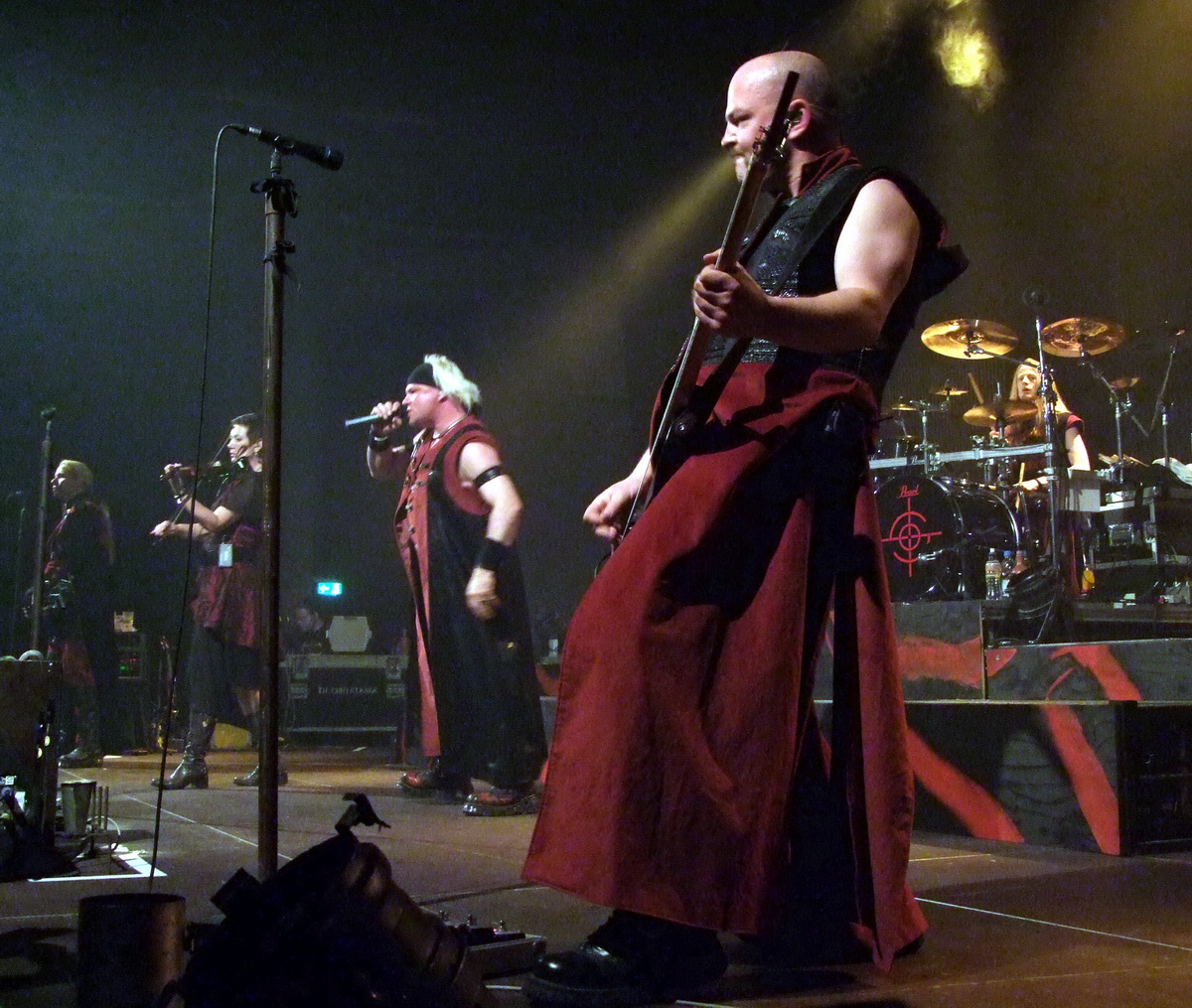 Subway to Sally, first concert of Kreuzfeuer Tour 2009, Bielefeld (Germany), april 2009